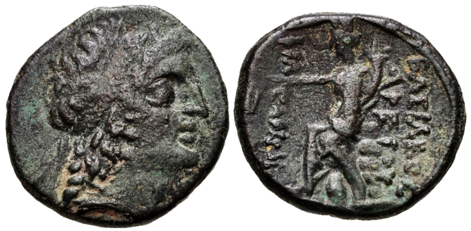 Aretas III bronze coin (21 mm, 7.31 g)